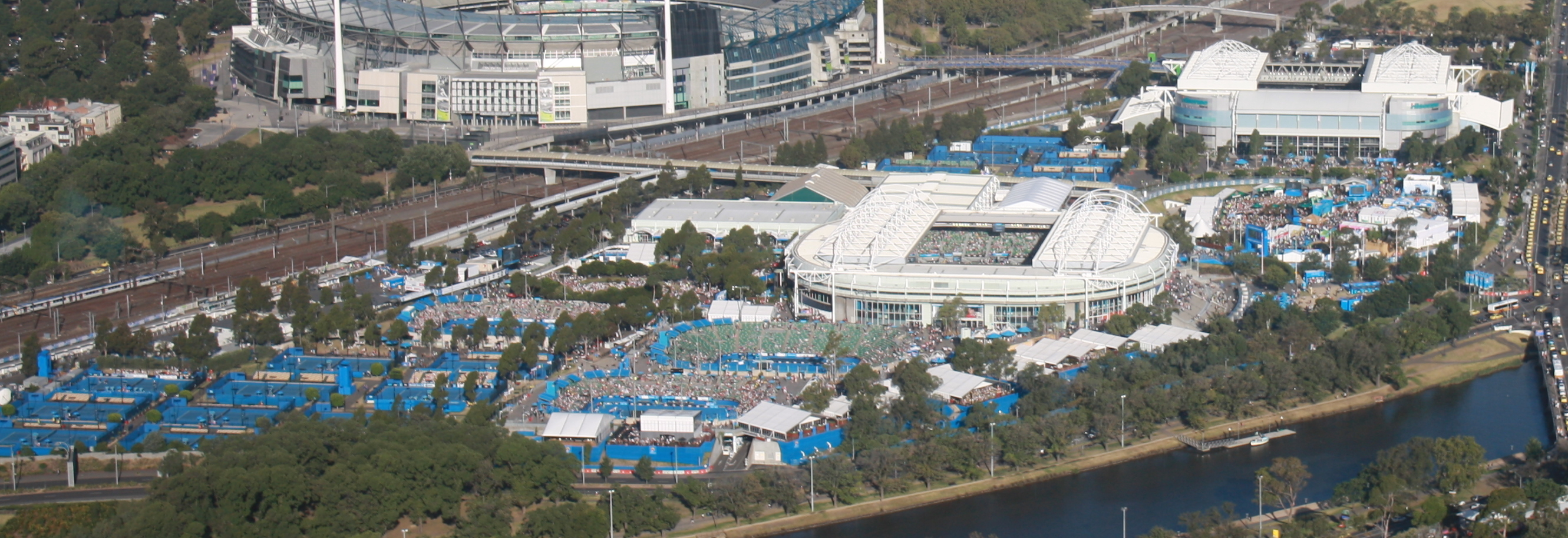 The Melbourne Park area in central Melbourne, in 2010. Parts of Melbourne Cricket Ground is visible at top.